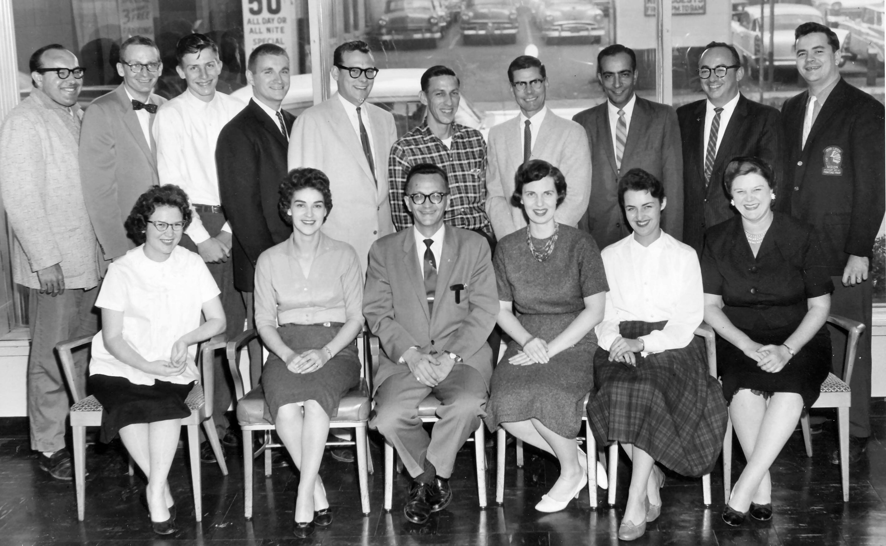 Staff of radio station WPON in 1960